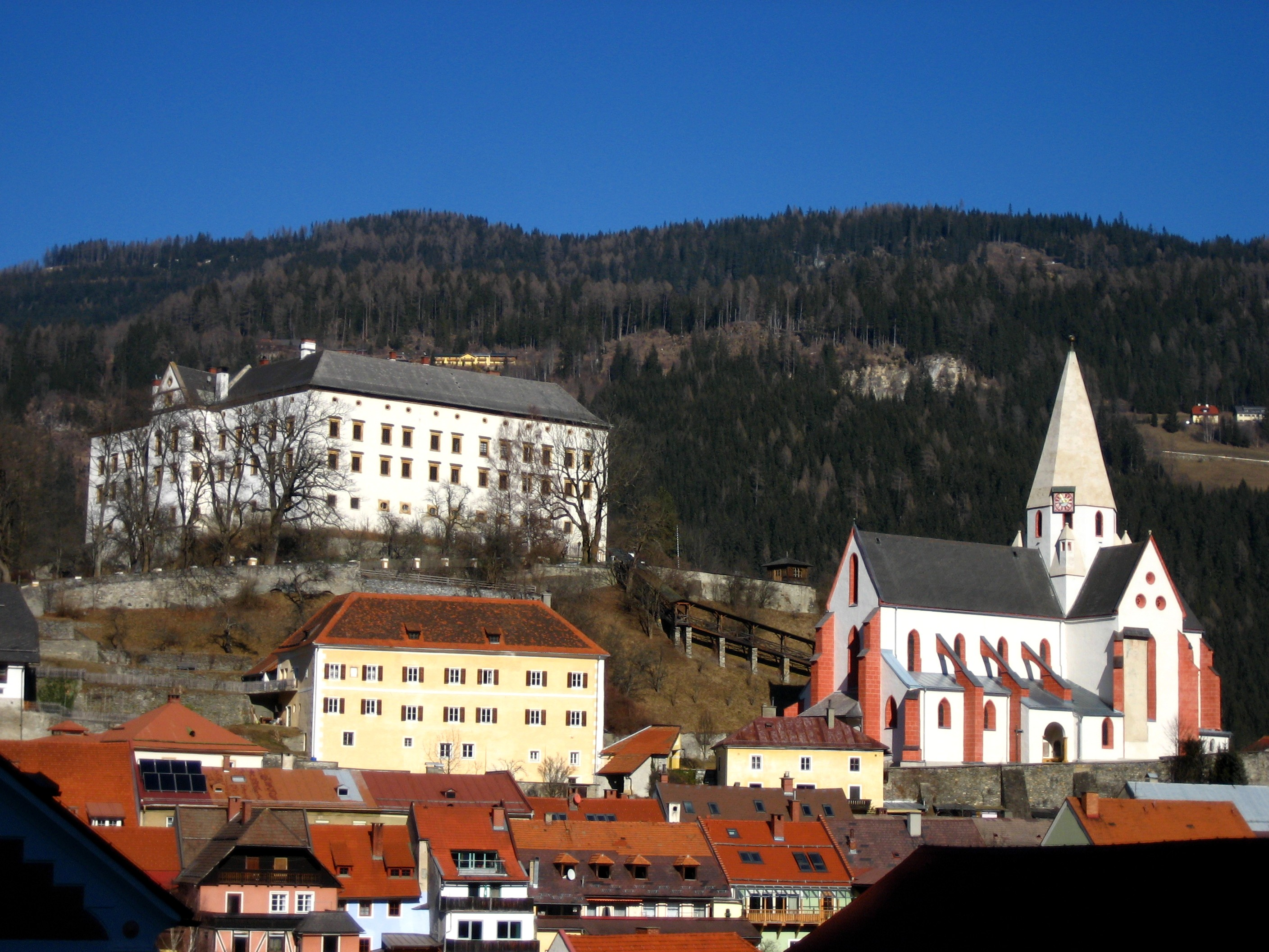 Murau in Styria, Austria